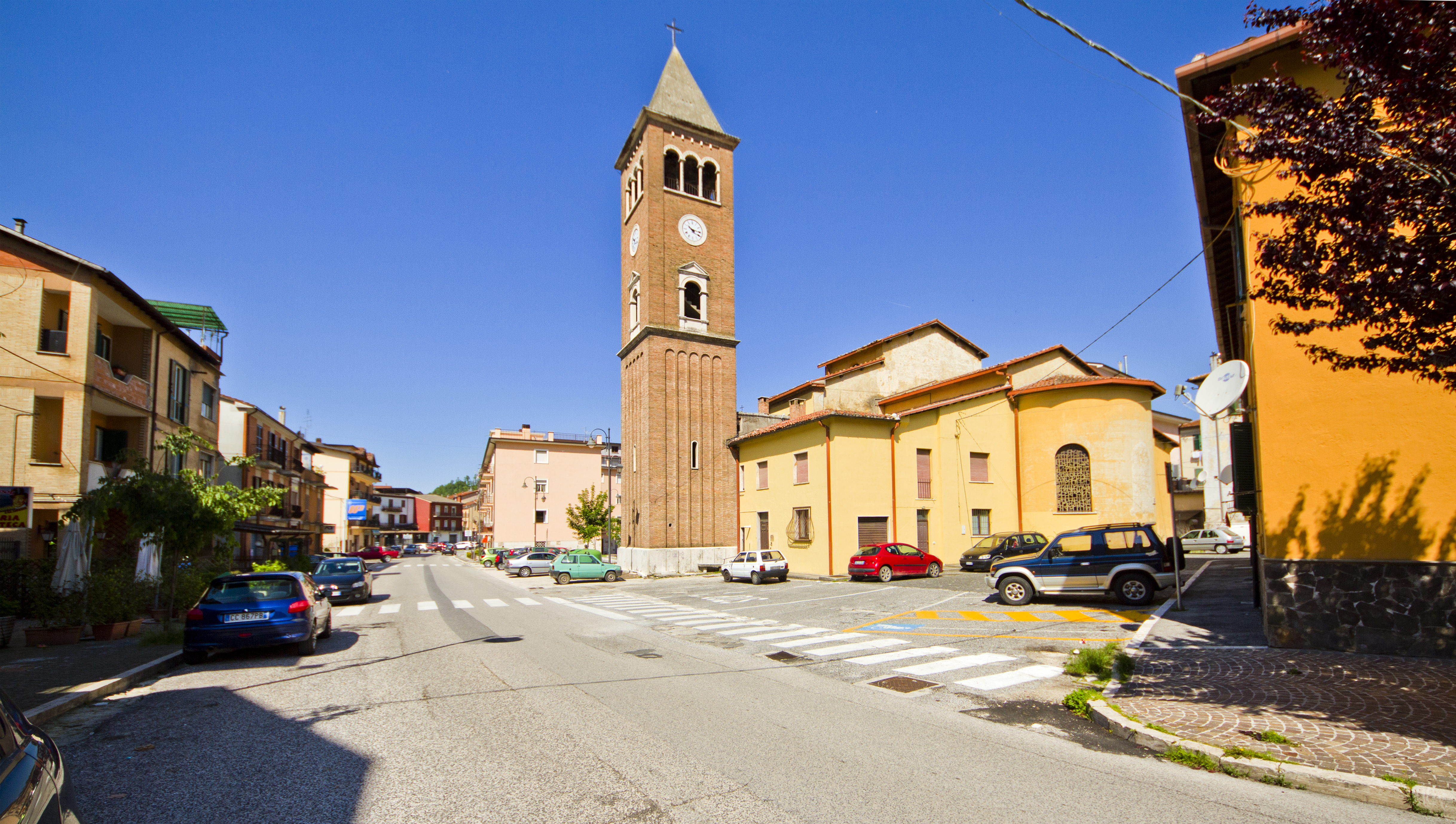 67061 Carsoli, Province of L'Aquila, Italy